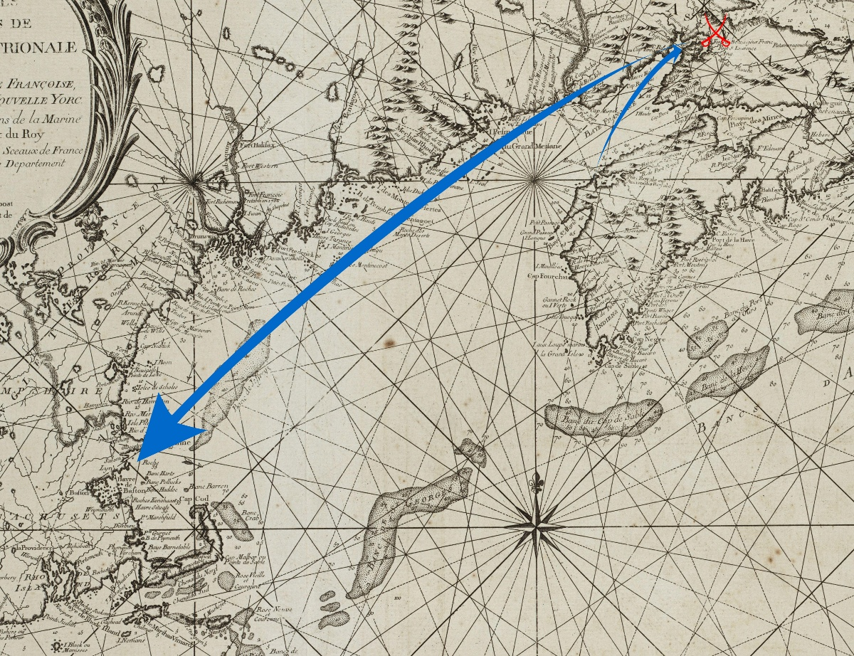 Detail from an 18th century map annotated to show the movements of Benjamin Church's 1704 expedition against French Acadia, after the Raid on Grand Pré. Swords in red indicate the location of Beaubassin, which was also raided.